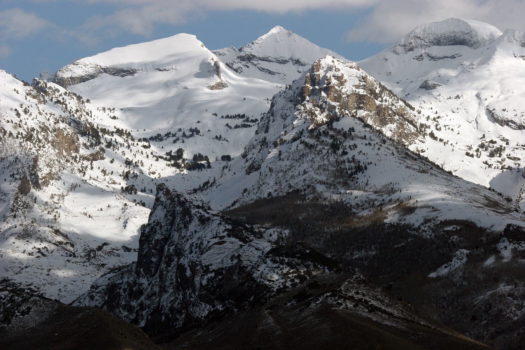 Ruby Mountains from Spring Creek, showing highest peaks (Ruby Dome on the right) Nevada, USA